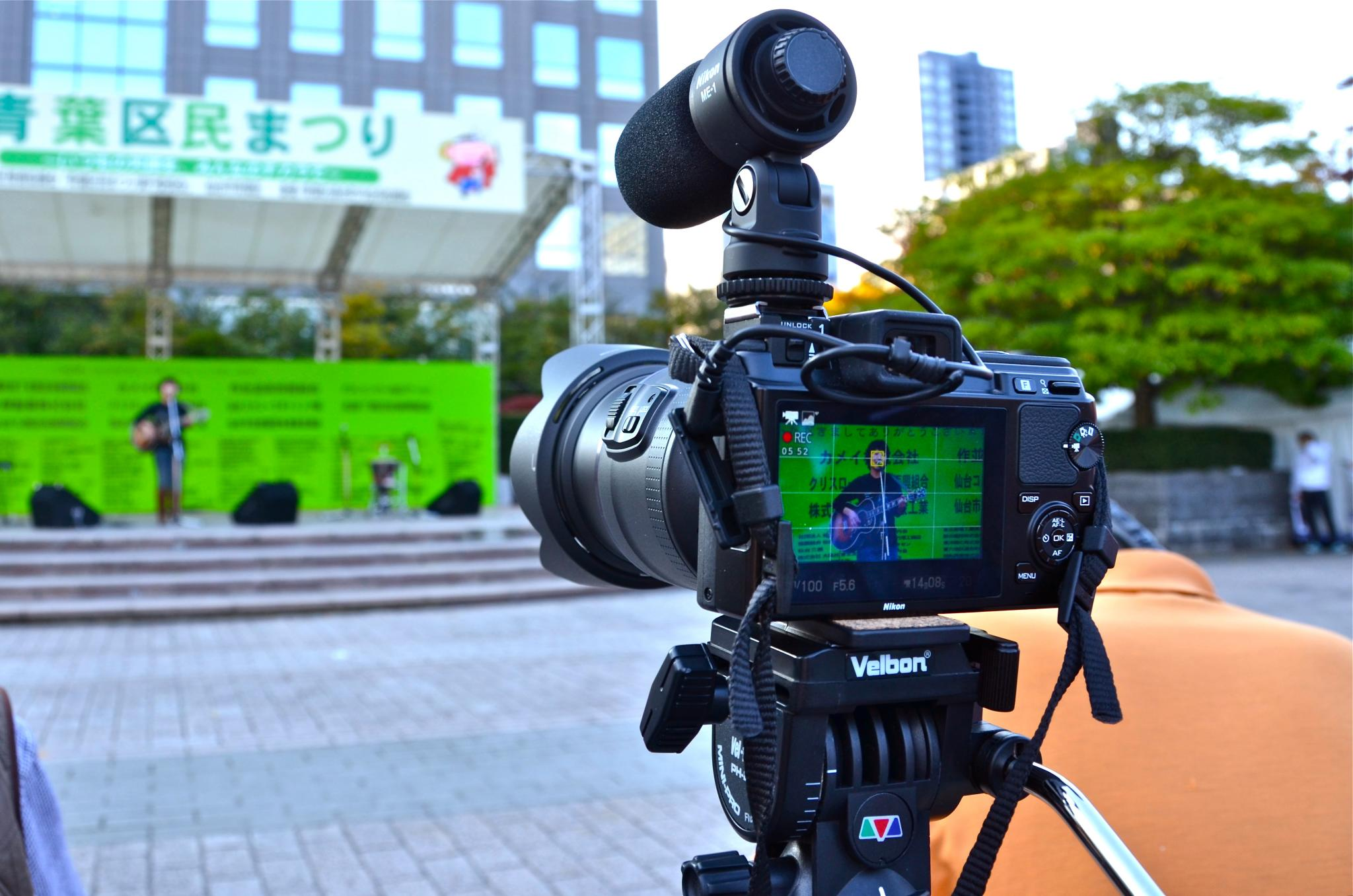 1Nikkor 10-100 + Stereo Microphone ME-1